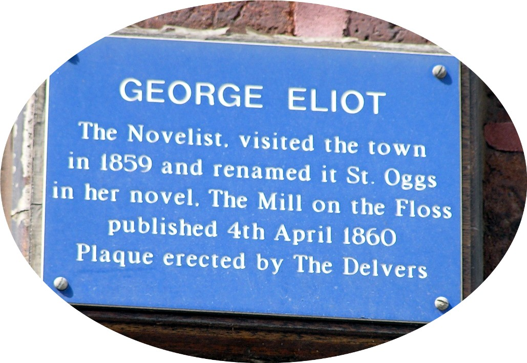 plaque on the wall of the house in Bridge Street, Gainsborough where George Eliot stayed in 1859